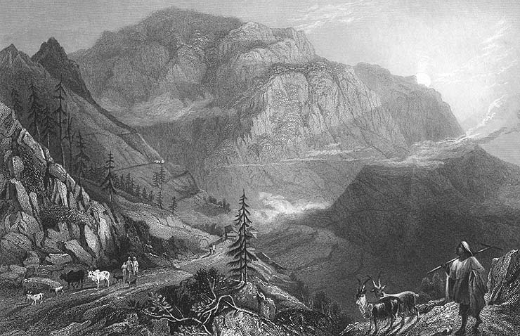 Mohuna village, Deobun, Northwest of Landour, Dehradun - 1850s. Original - MOHUNA, NEAR DEOBUN